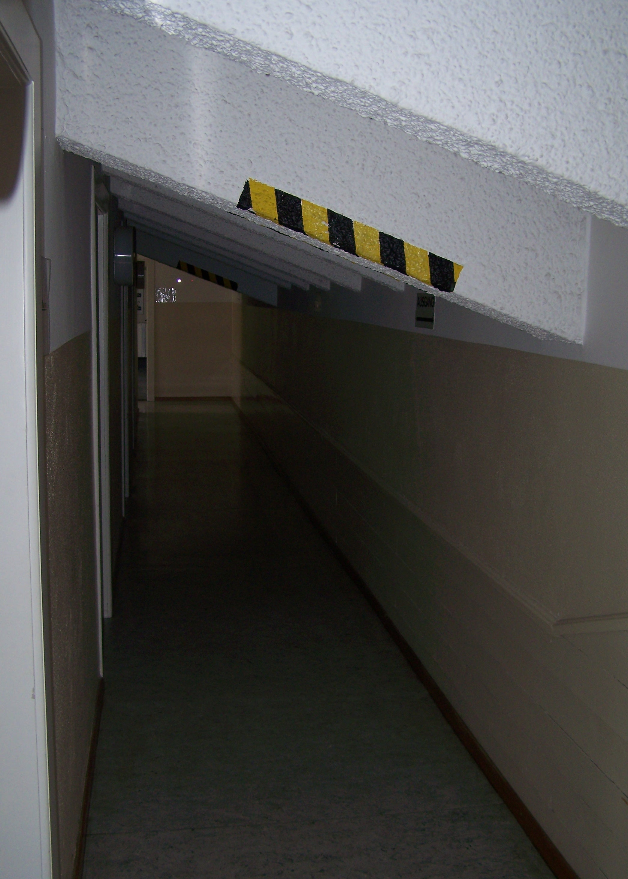 corridor in the Haupttribüne of the "Städtische Stadion an der GRünwalder Straße" in Munich